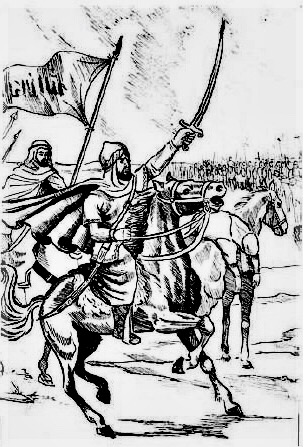 الصحابي الجليل عرفجة بن هرثمة